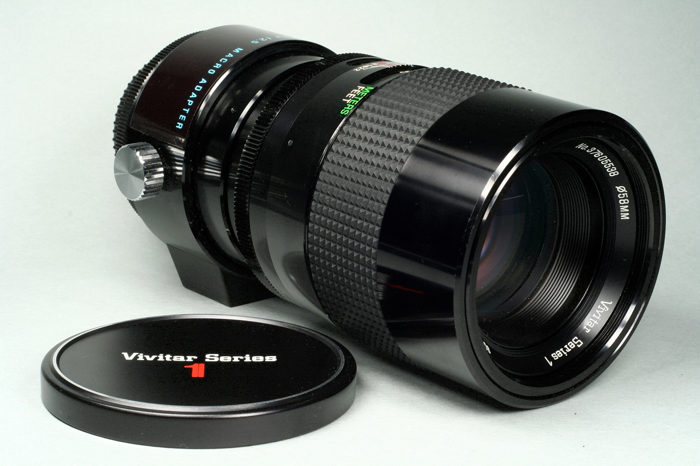 This image shows a Vivitar Series 1 90mm f2.5 Macro Lens.